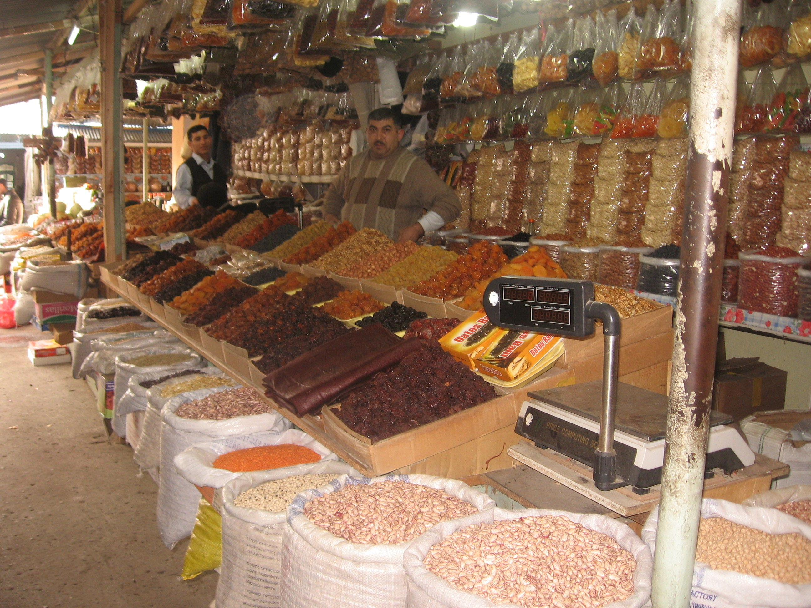 Teze bazar in Baku